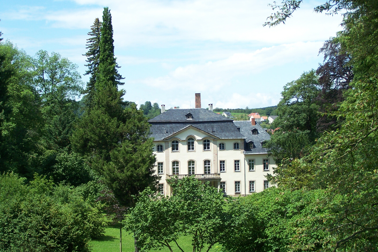 The Glücksbrunn castle in Schweina village.